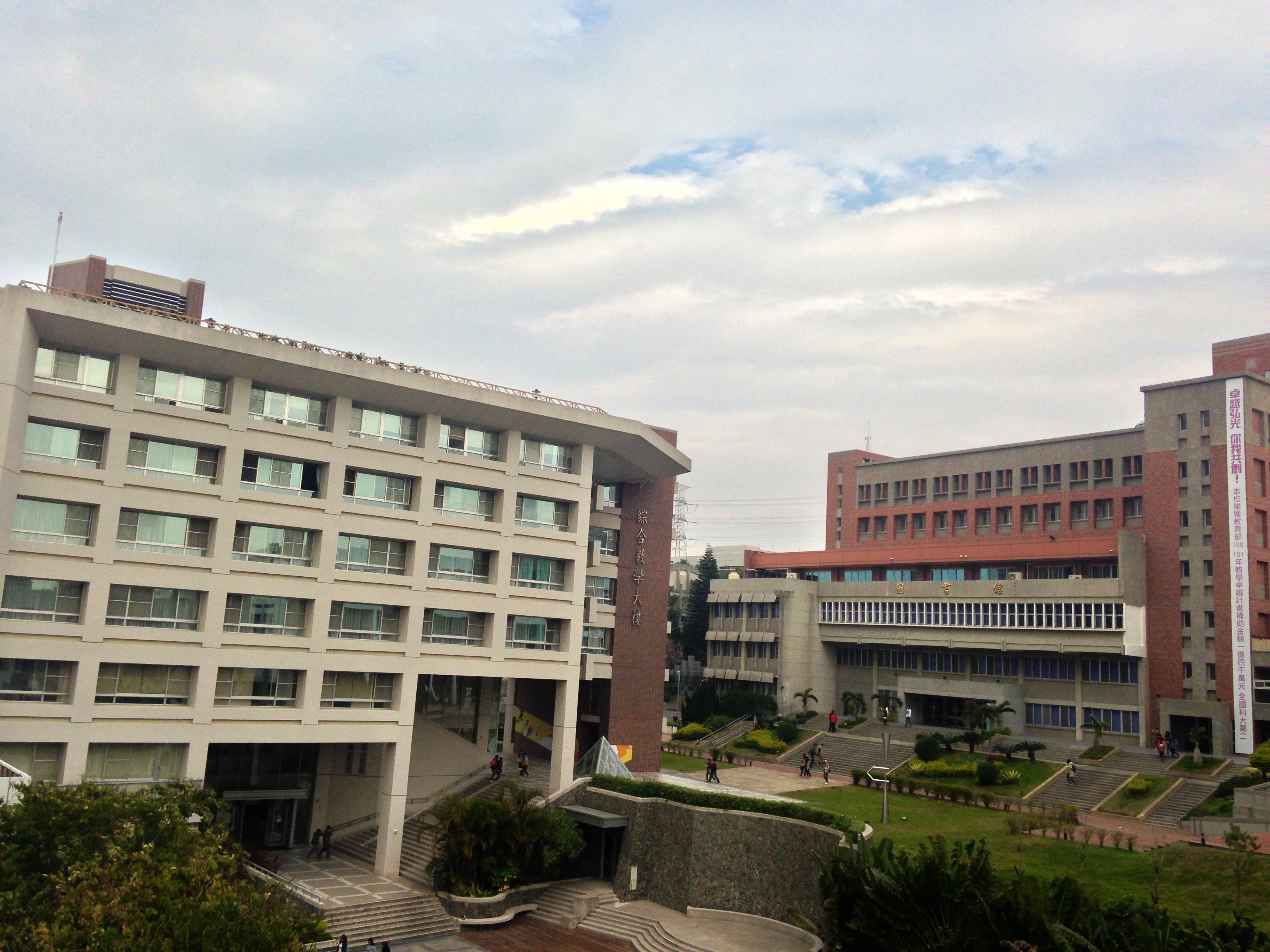 HungKuang University library